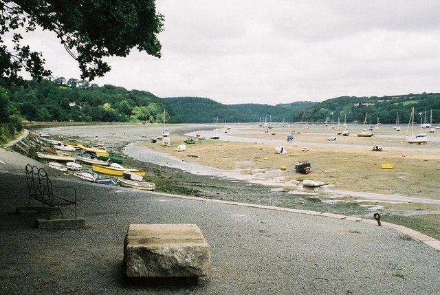 Golant: River Fowey. Looking upstream along the Fowey from the harbour at Golant. The railway line prevents anything but the smallest craft reaching the quayside at the village centre.